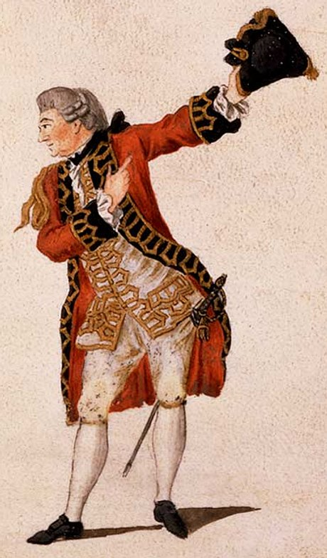 David Garrick as Benedick in Shakespeare's Much Ado About Nothing. Watercolor on paper.